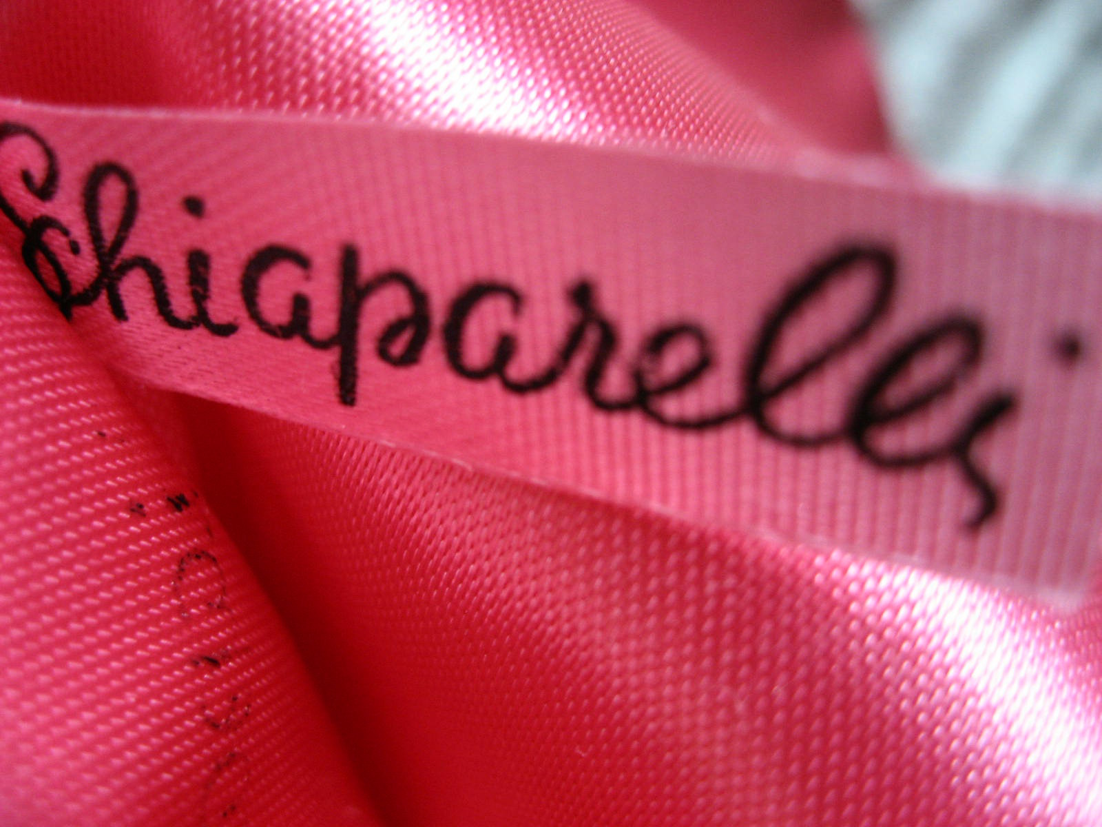 Tag inside lingerie case! Shocking-pink was Schiaparelli's signature color.